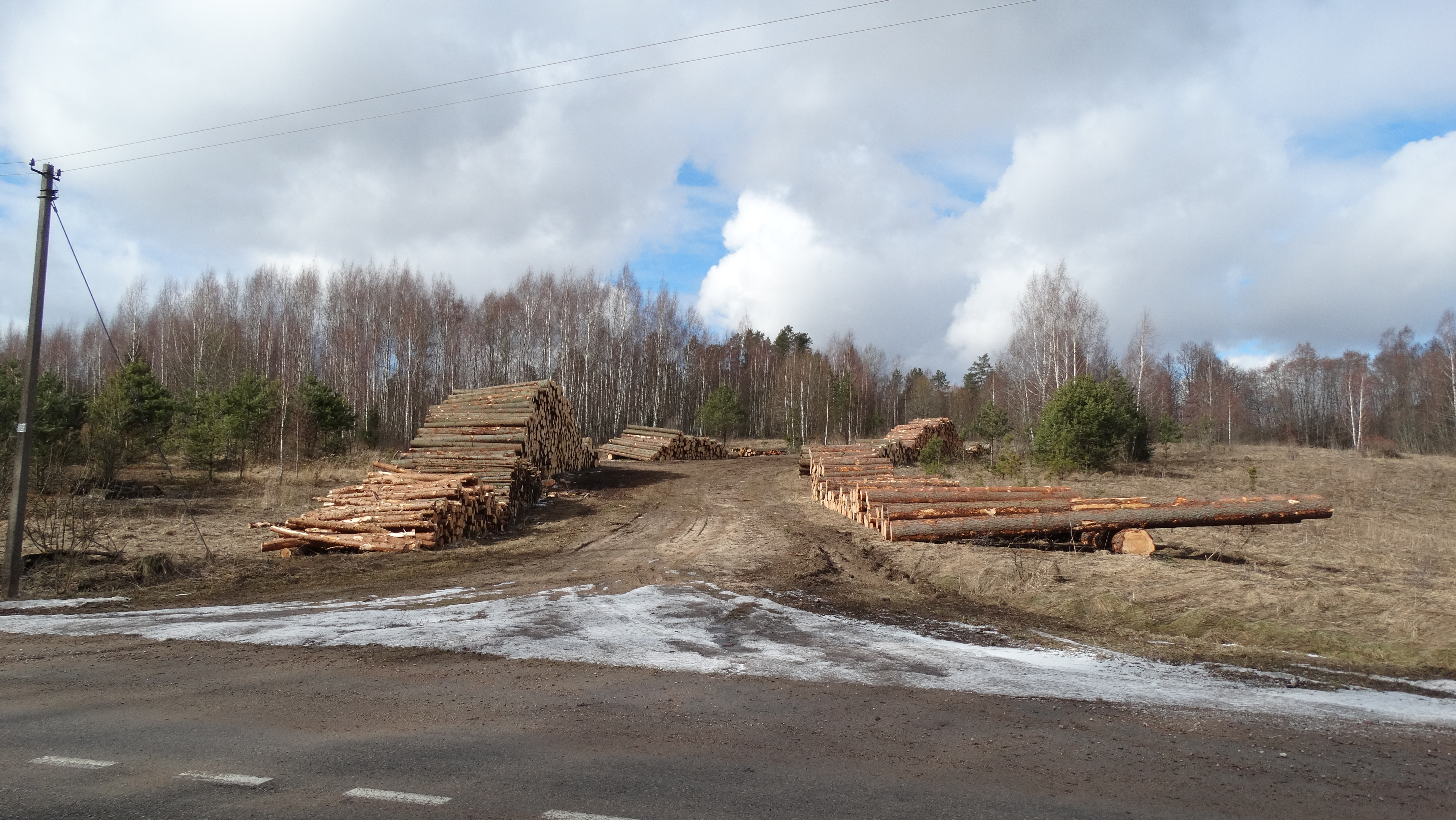 Woodpiles in Melnyčinė, Zarasai district, Lithuania